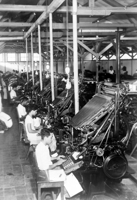 A row of linotype machines in a local printing house in Batavia